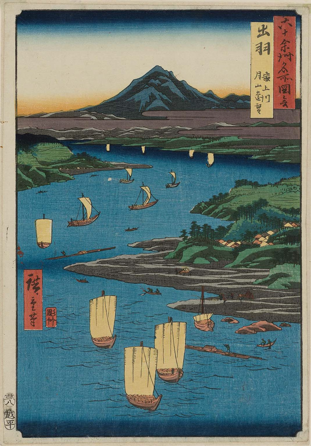 Part of the series Famous Places in the Sixty-odd Provinces, No. 29 (Tōsandō group)